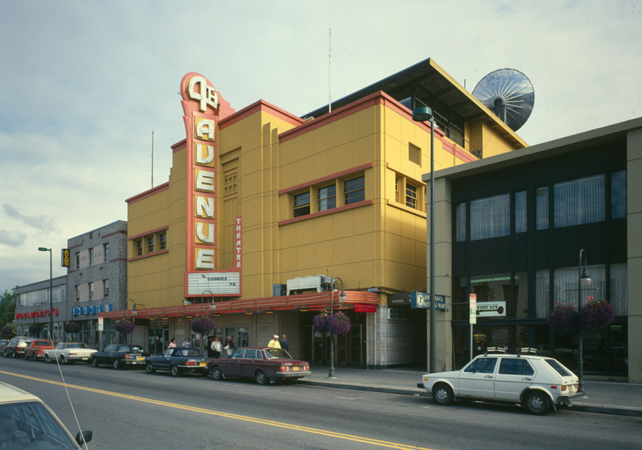 Front elevation of the Fourth Street Theater, Anchorage, Alaska